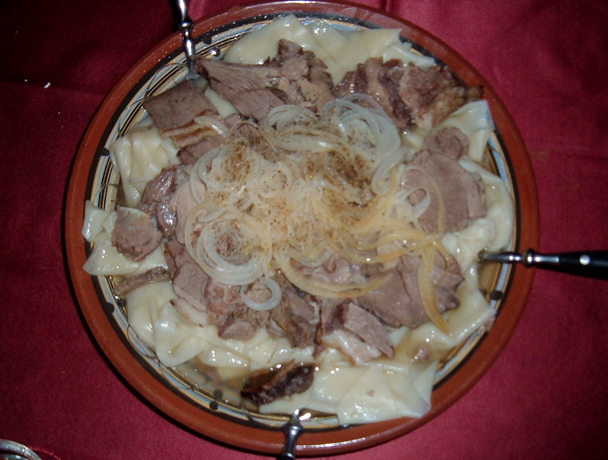 Local Kazakstan cusine Beşbarmaq